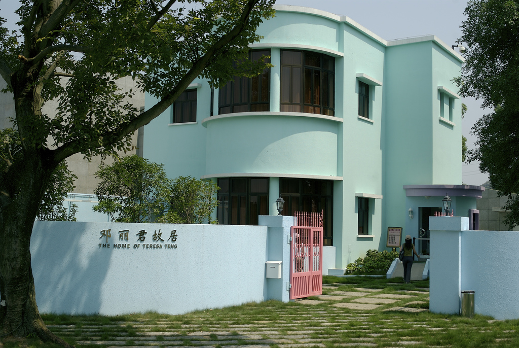 The Home of Teresa Teng, Carmel Road, Hong Kong, China.